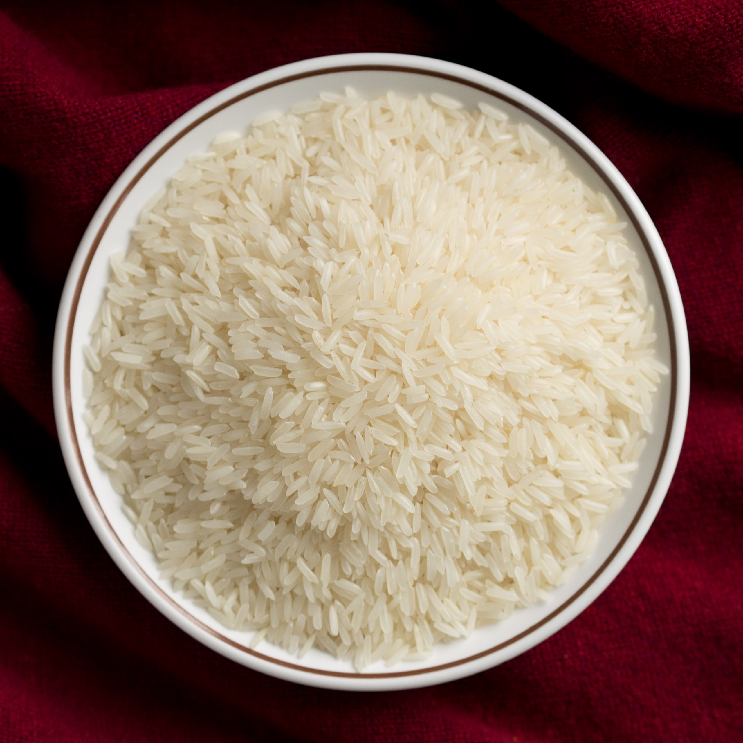 Thai jasmine rice has a natural fragrance reminiscent of jasmine. In Indonesia, this type of rice is called "pandan rice" as it is there associated with the fragrance of screwpine leaves. The colour balance of this image was correctly established as to show the exact colour of the rice.